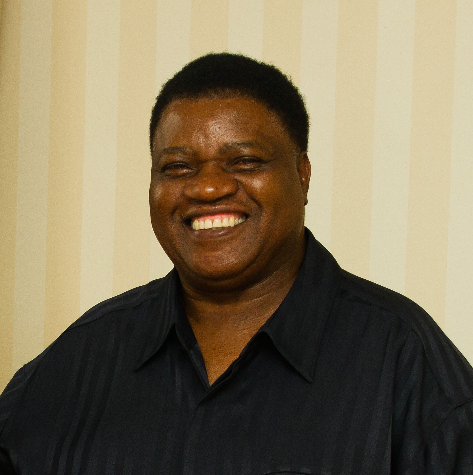 Australian Foreign Minister Kevin Rudd with Foreign Minister Utoni Nujoma of Namibia.